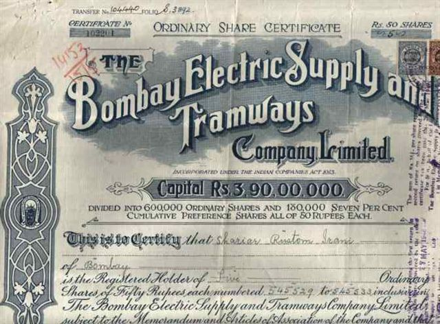 SHARE CERTIFICATE of the Bombay Electric Supply and Tramways company